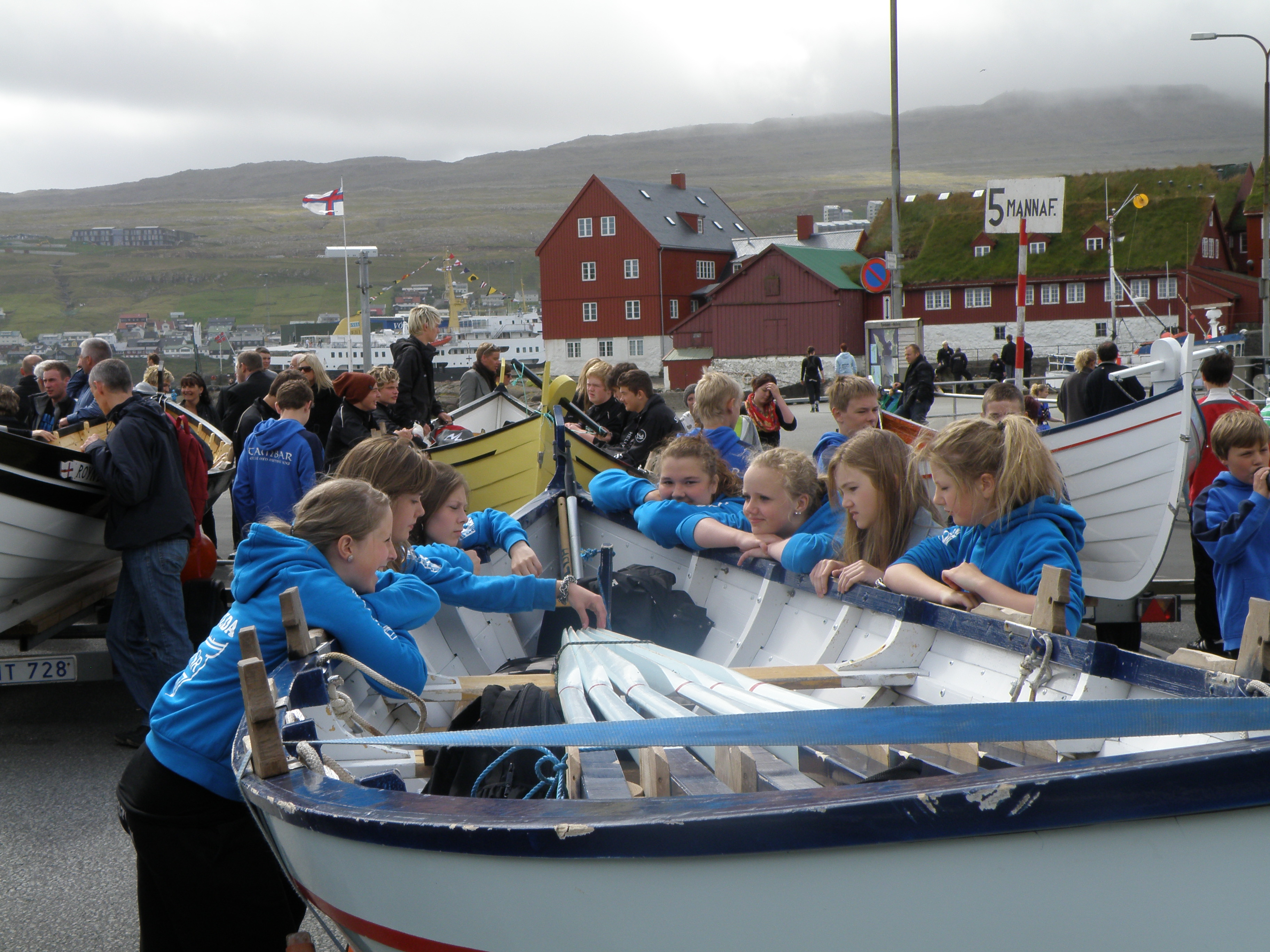 Ólavsøka is the national holiday of the Faroe Islands, it is held on 28 and 29 July. Kappróður (boat races in Faroese wooden rowing boats) are among the events of 28 July. This photo was taken just before the children's rowing started at around 2 in the afternoon. These girls come from Suðuroy, the southernmost island, from the village Tvøroyri. They are rowing with a boat called Hulda, it is a so-called 5-mannafar, which has 6 rowers and a coxswain. The boat club from Tvøroyri is called Froðbiar Sóknar Róðrarfelag, named after the village Froðba, which is 1-2 km east of Tvøroyri. Føroyskt: Ólavsøkuaftan 2011. Myndin er tikin beint áðrenn FM barnaróður byrjaði. Her síggjast genturnar av Tvøroyri, sum rógva við Huldu. Aðrar bátar og bátsmannignar síggjast aftanfyri tær. Róðrarfelagið av Tvøroyri eitur Froðbiar Sóknar Róðrarfelag.